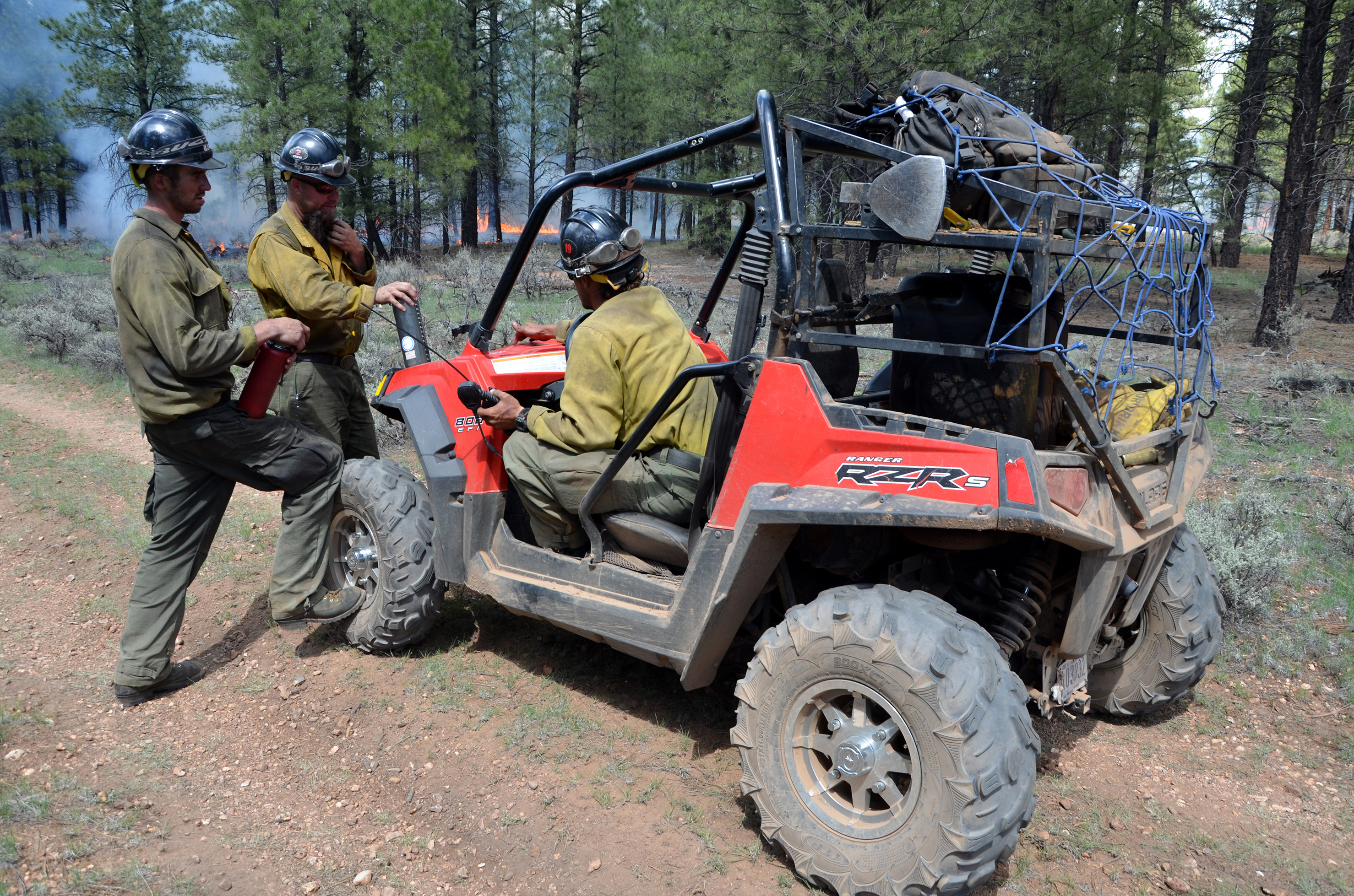 The McRae Fire is being managed to achieve resource objectives such as improving forest health and enhancing wildlife habitat on the Tusayan Ranger District of the Kaibab National Forest. Photo taken August 5, 2014, by Dyan Bone. Please give credit to: U.S. Forest Service, Southwestern Region, Kaibab National Forest.